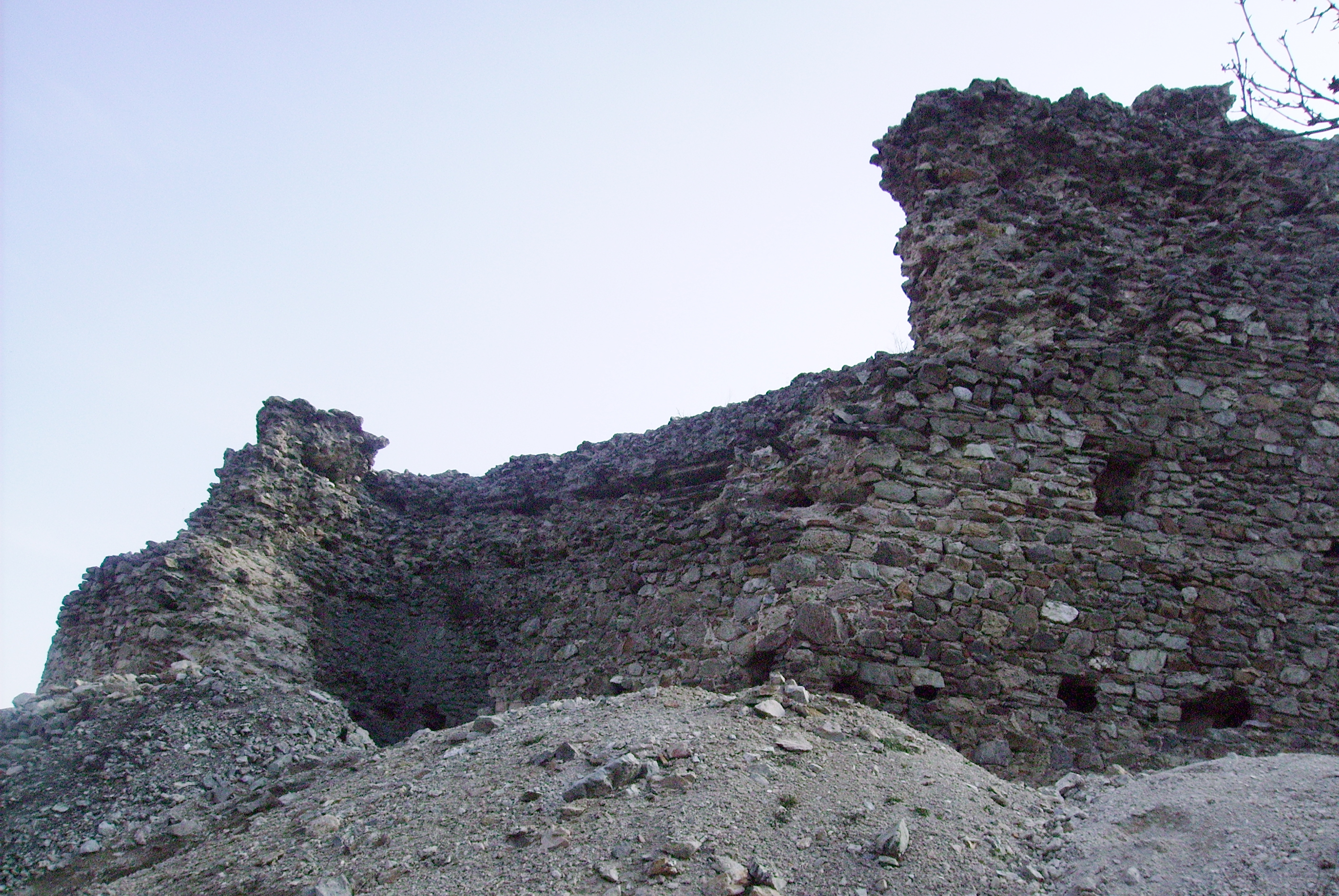 Carevi Kuli